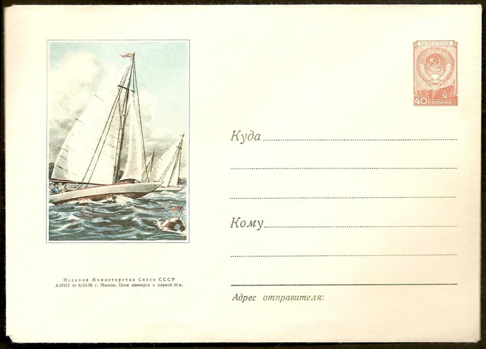 The first illustrated cover of the USSR, 1953